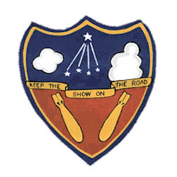 Emblem of the 384th Bombardment Group (World War II)